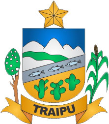 Coat of arms of Traipu city